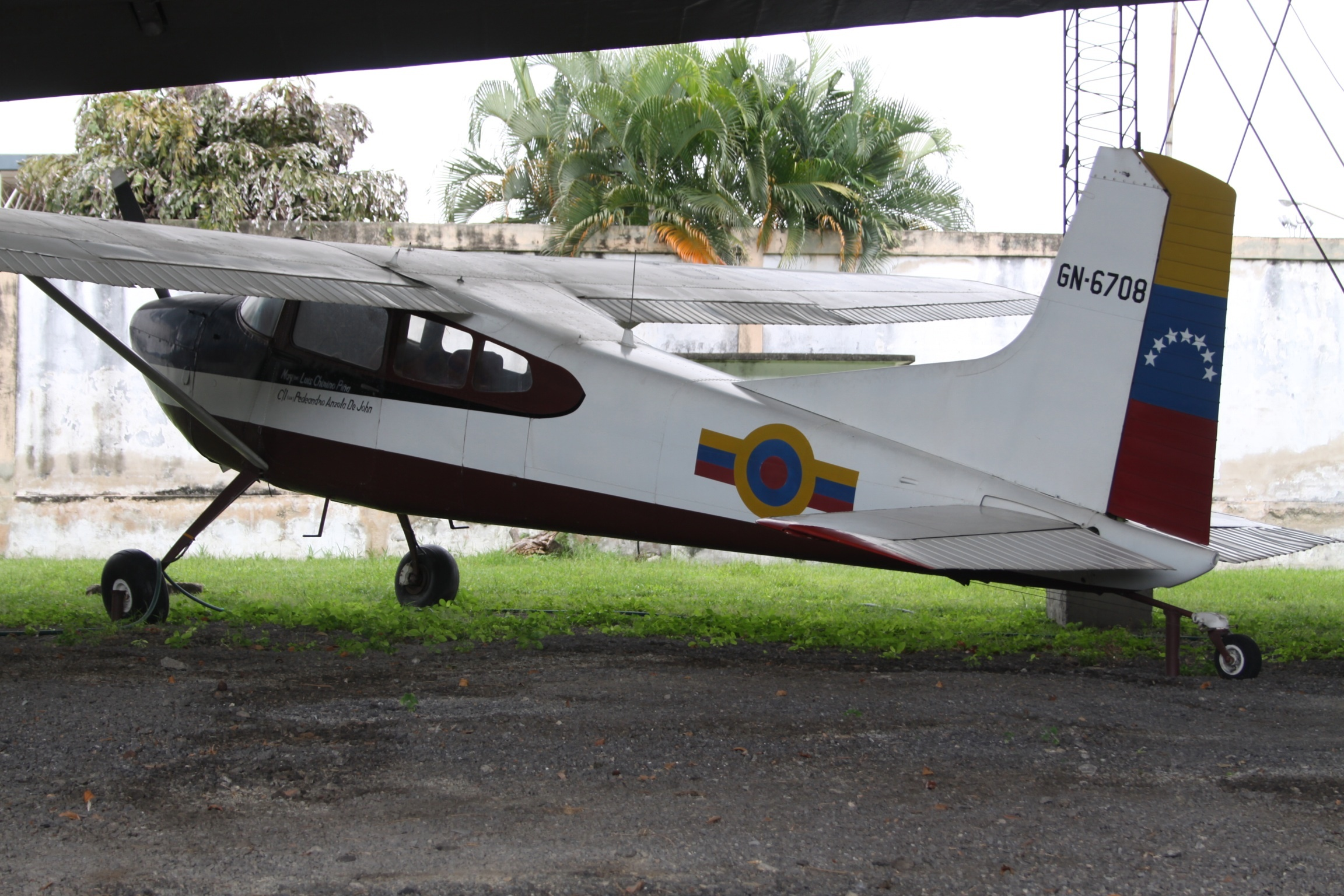 At Museo Aeronáutico de Maracay